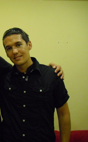 (Right) Jorge Ruiz, Singer and Compositor of MALDITA NEREA